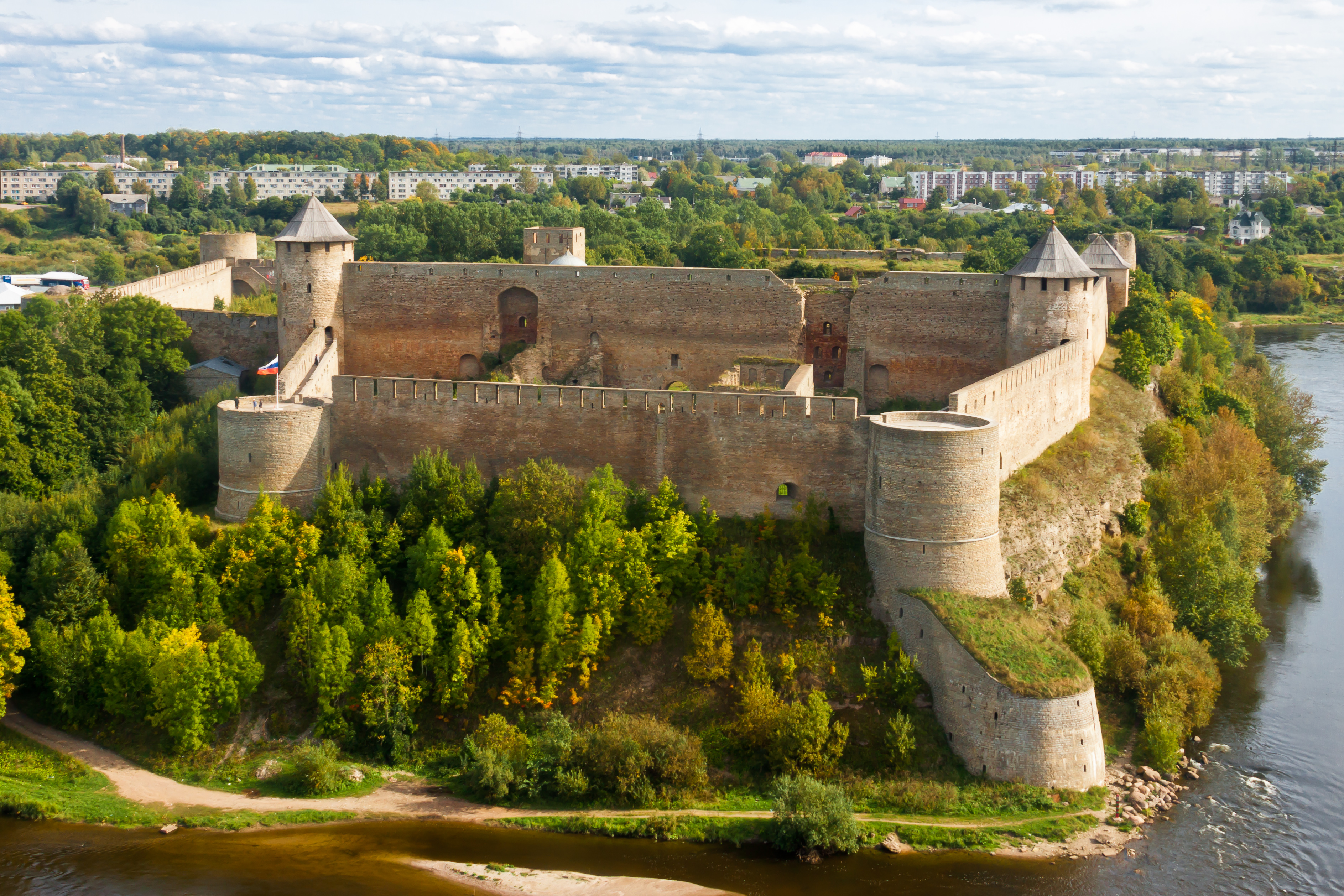 Ivangorod fortress (Ivangorod, Russia) as seen from top of Hermann Castle (Narva, Estonia)